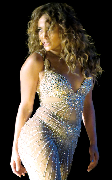 Jennifer Lopez live at the Pop Music Festival in São Paulo, Brazil.